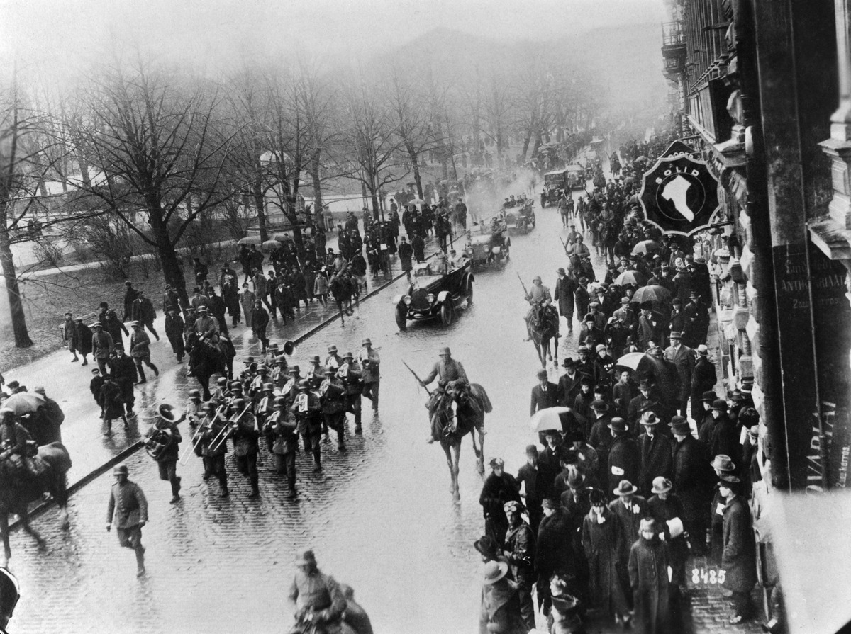 German victory parade in the Pohjoisesplanadi street after the 1918 Battle of Helsinki.